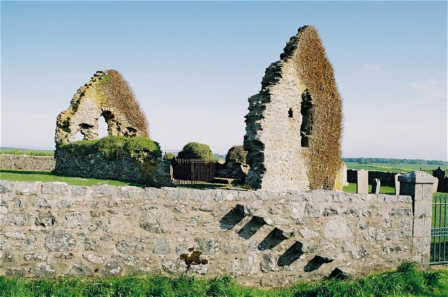 St Mary's Chapel The ruins of the church of the former village of Rattray.